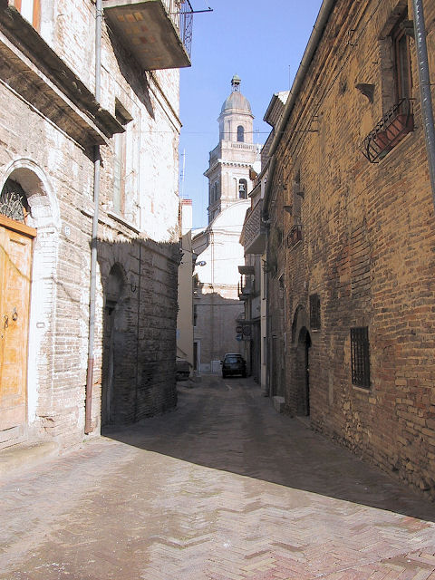 Casalbordino, Via Cisterna facing north with the Parish Church of Christ the Saviour in background.